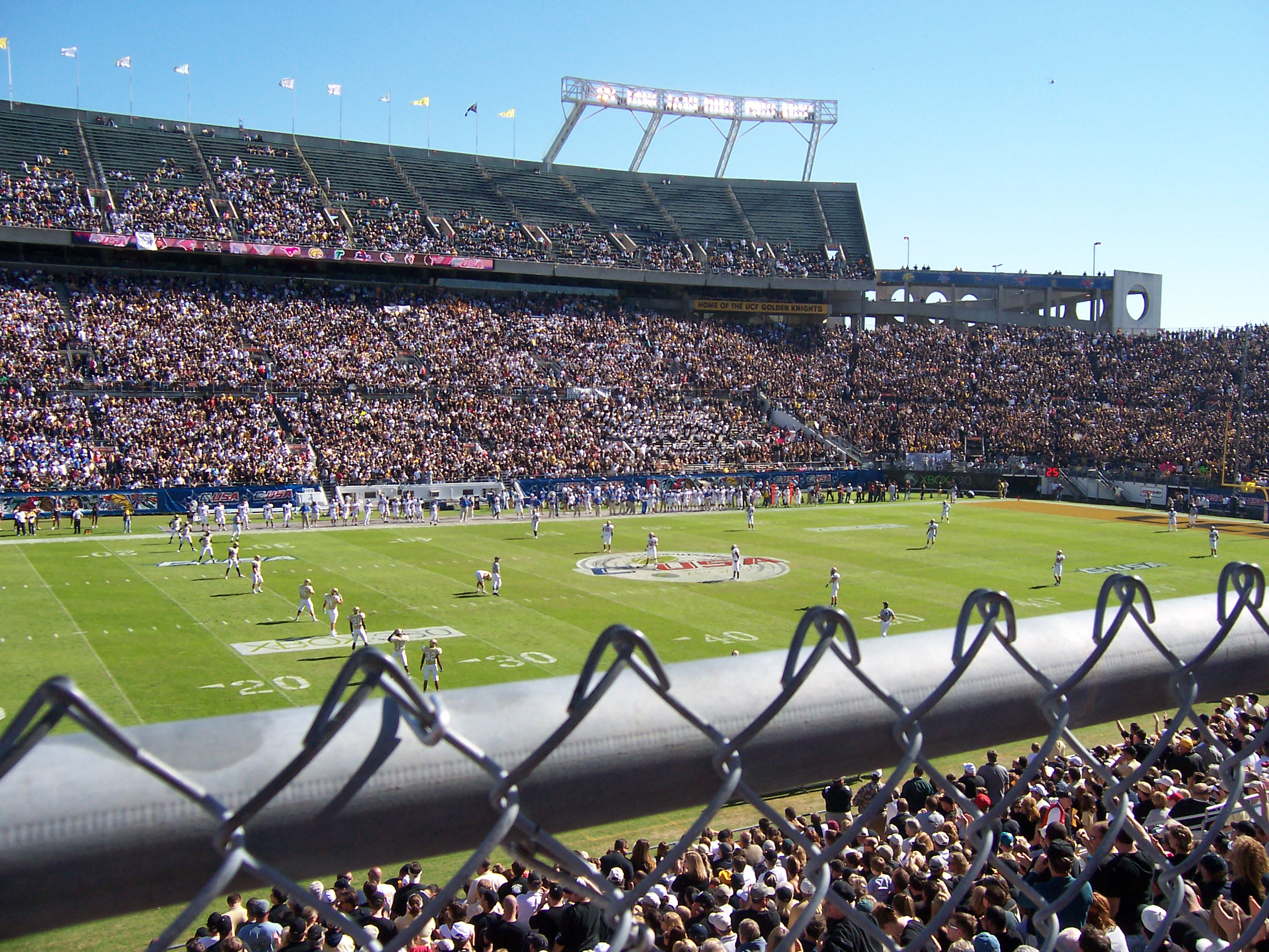 The Florida Citrus Bowl stadium located in Orlando, Florida.